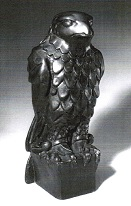 Black and white image of the Maltese Falcon film prop created by Fred Sexton for John Huston and the 1941 Warner Bros. film production, "The Maltese Falcon" This image was taken from attribution documentation compiled by Hank Risan pertaining to his Maltese Falcon film prop.